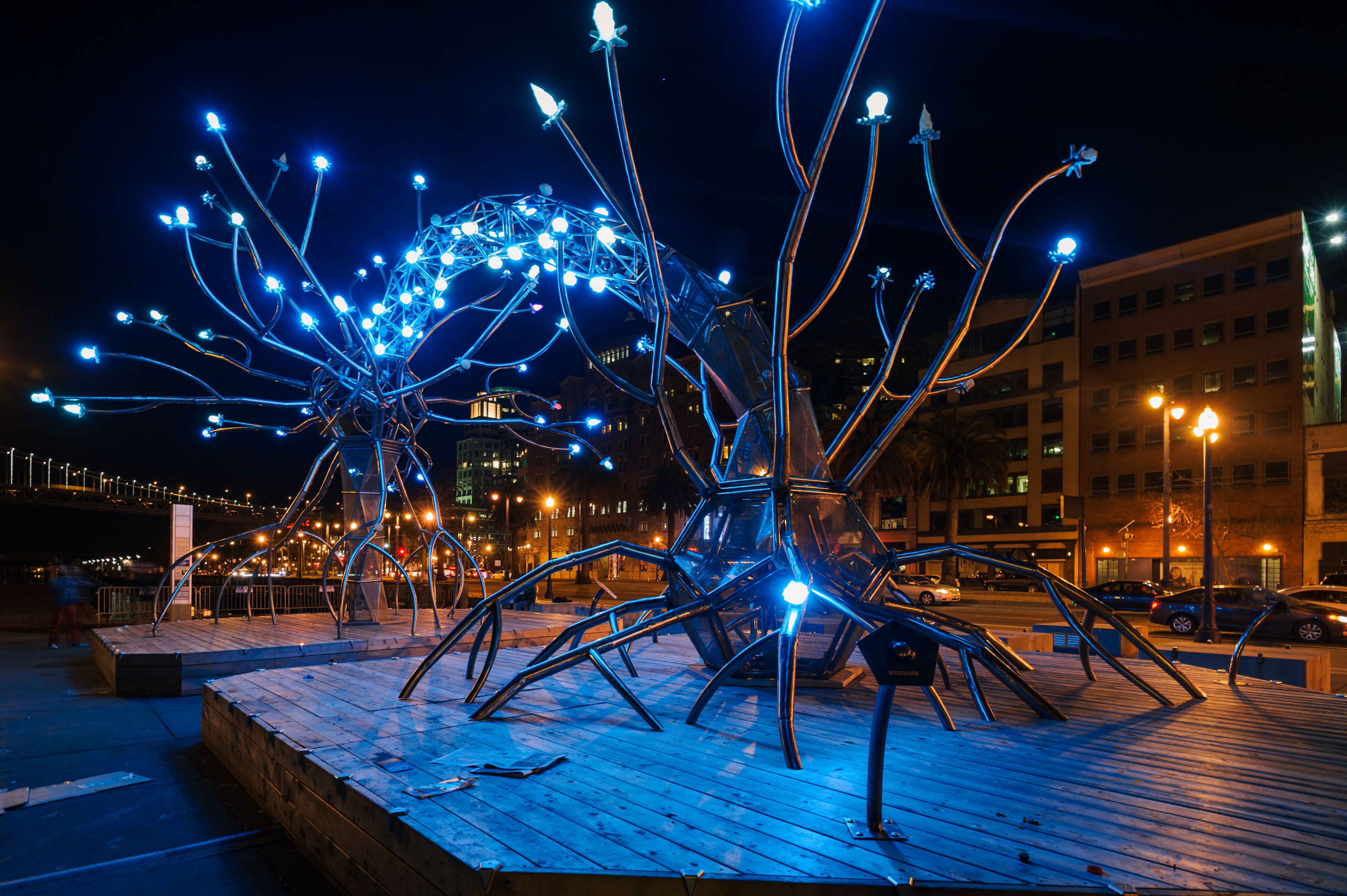 Sculpture by the Flaming Lotus Girls artist group, named "Soma", installed in San Francisco at Pier 14 on the Embarcadero.